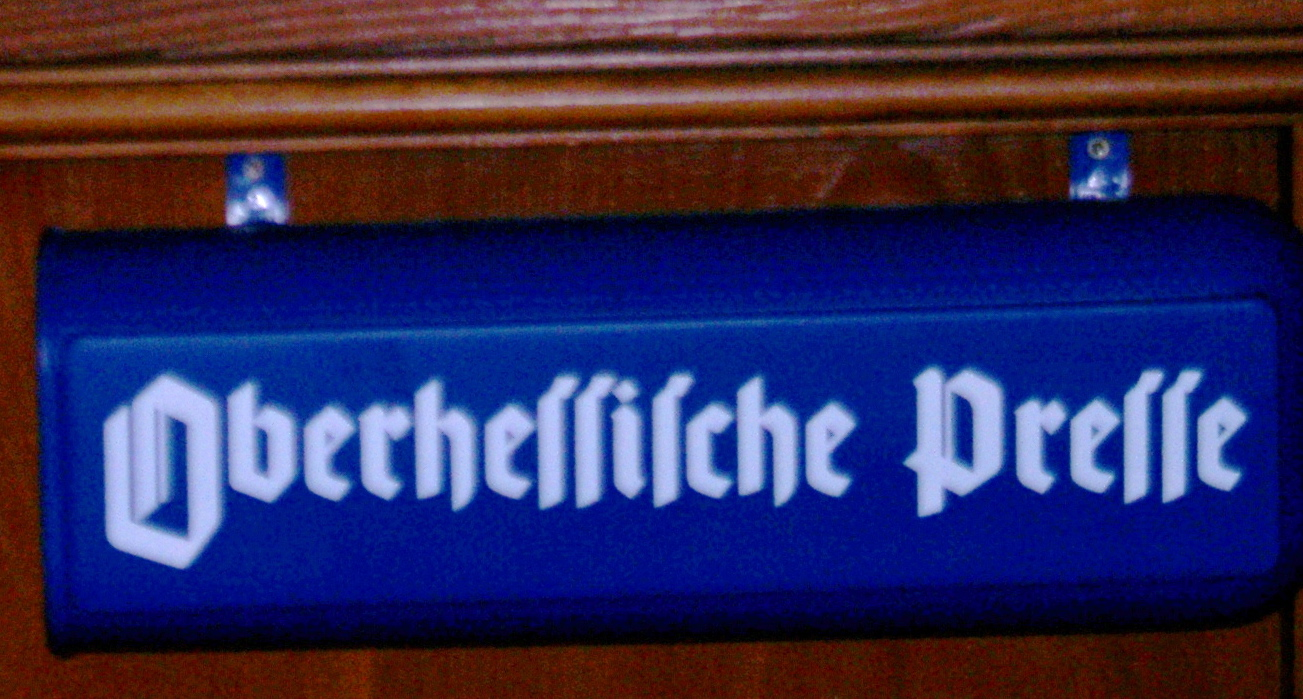 Box for newspaper with name of newspaper "Oberhessische Presse" (Press of Upper Hesse). Name with five long s'es. Photo taken 2002 in Marburg